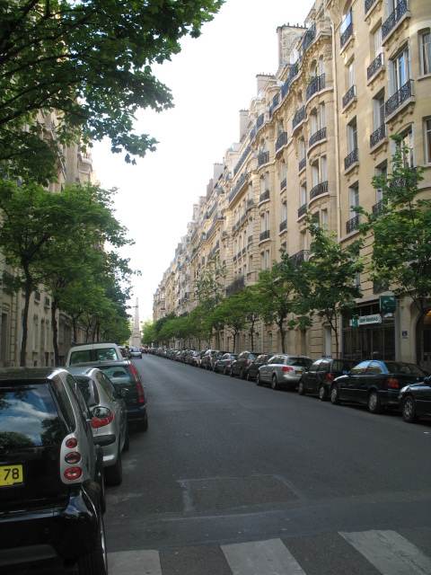 Rue Berteaux-Dumas in Neuilly. (Author: Metropolitan)